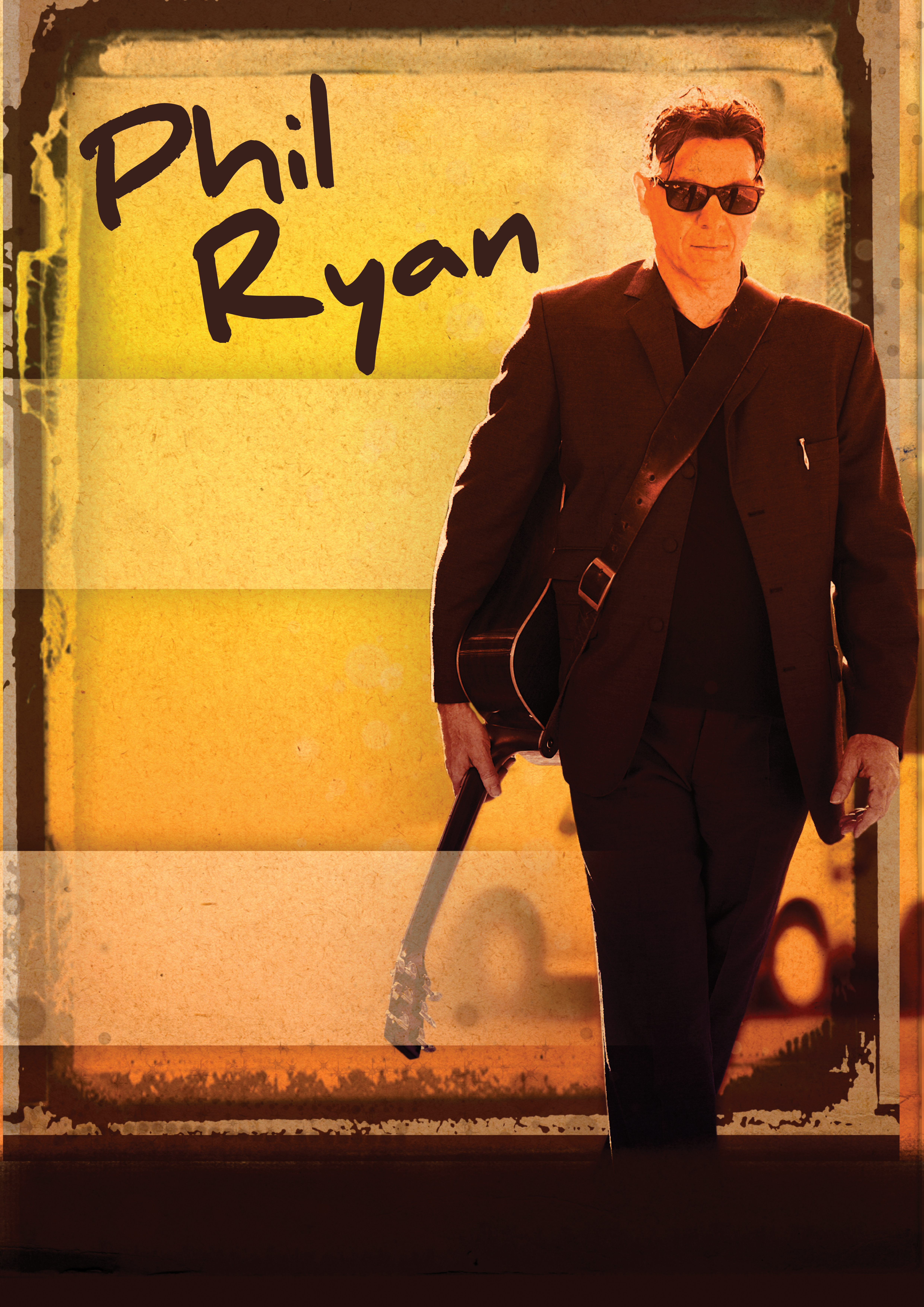 Blank poster for 2018 charity single recorded by Phil Ryan for The Big Issue